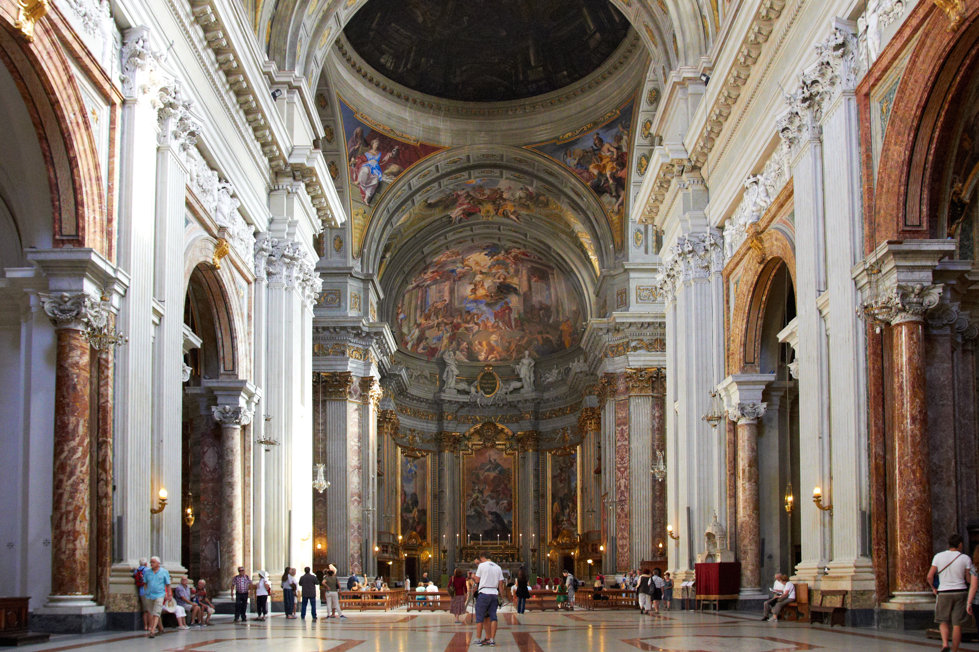 Church of St. Ignatius of Loyola at the Campus Martius